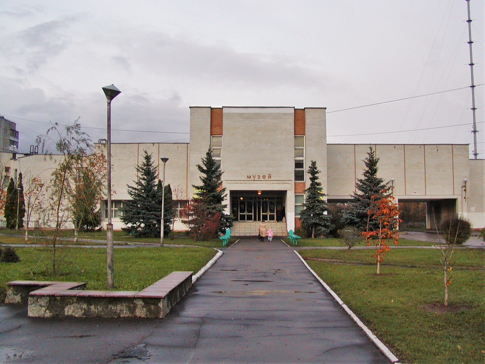 Obninsk's historical museum.